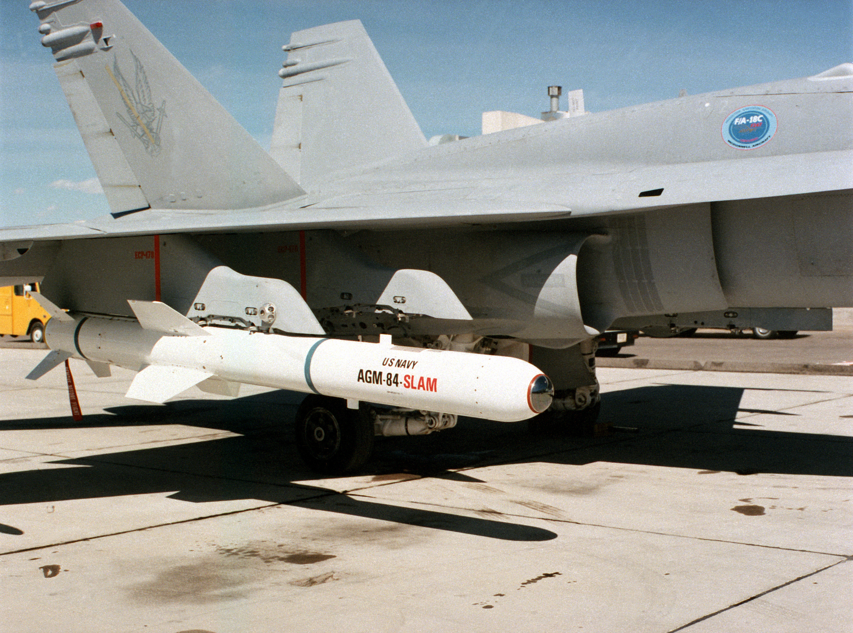 A view of an AGM-84 Harpoon air-to-surface anti-ship missile fixed under the wing of an F/A-18C Hornet aircraft parked on a flight line. Command Shown: N1601